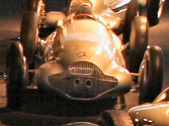 Mercedes-Benz W154 in 1938 configuration in the Mercedes-Benz museum.